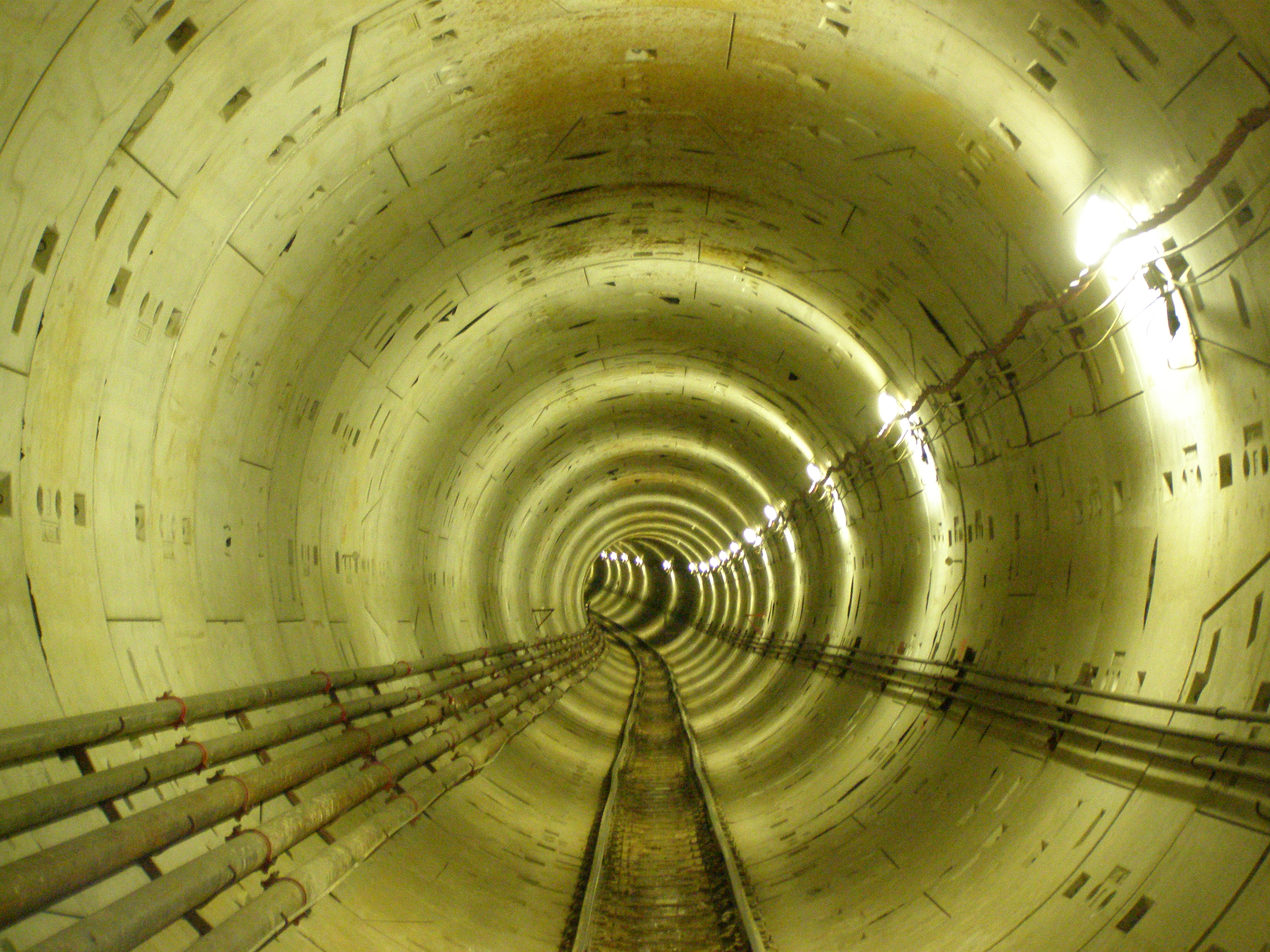 Tunnel of Thessaloniki's Metro.